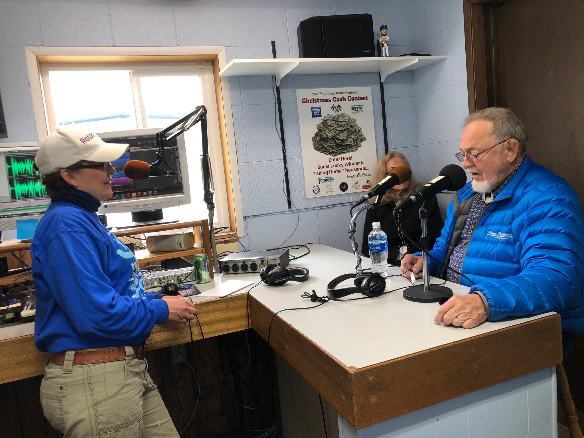 It's been a busy swing through the Copper River Basin and Southeast! I always appreciate the opportunity to update Alaskans directly on the issues facing Congress; one of the best ways to do that is through radio and print.